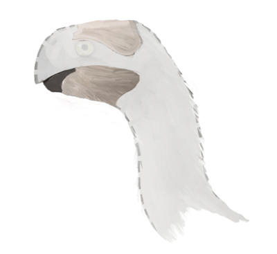 Restored profile of the oviraptorid dinosaur "Ingenia" yanshini by Matt Martyniuk.